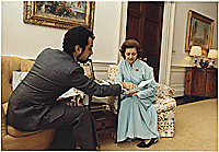 Mrs. Ford meets with fashion designer Albert Capraro in the Second Floor West Sitting Hall